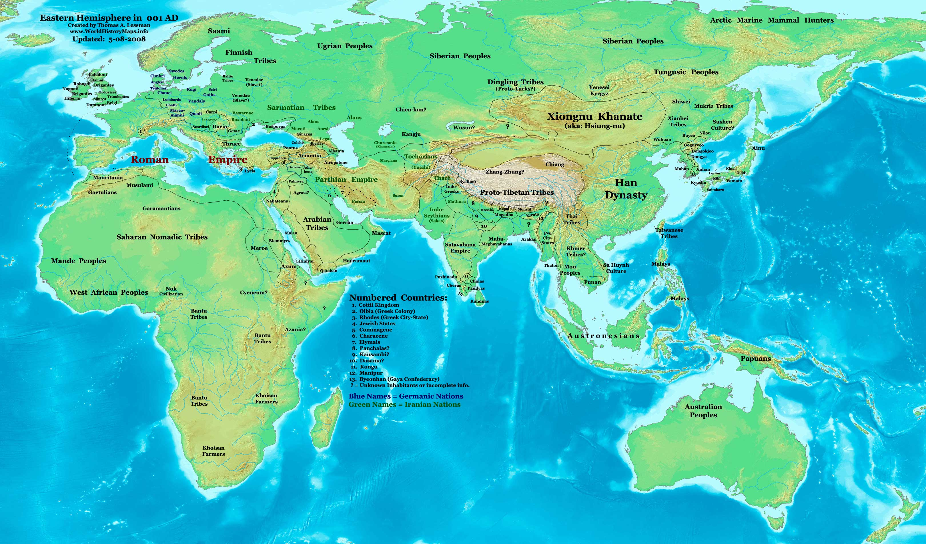 Eastern Hemisphere in 001 AD.